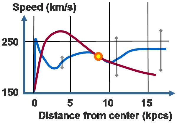 Rotation curve for Milky Way galaxy